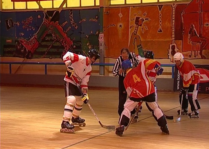 Sports and Recreation Center "Dynamix" in Poznań, Poland Roller skating rink (so called Rollarena)